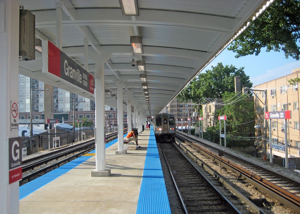 The renovated island platform at Granville is seen looking north on July 14, 2012, the first full day of service after having reopened at 10pm the night previous.